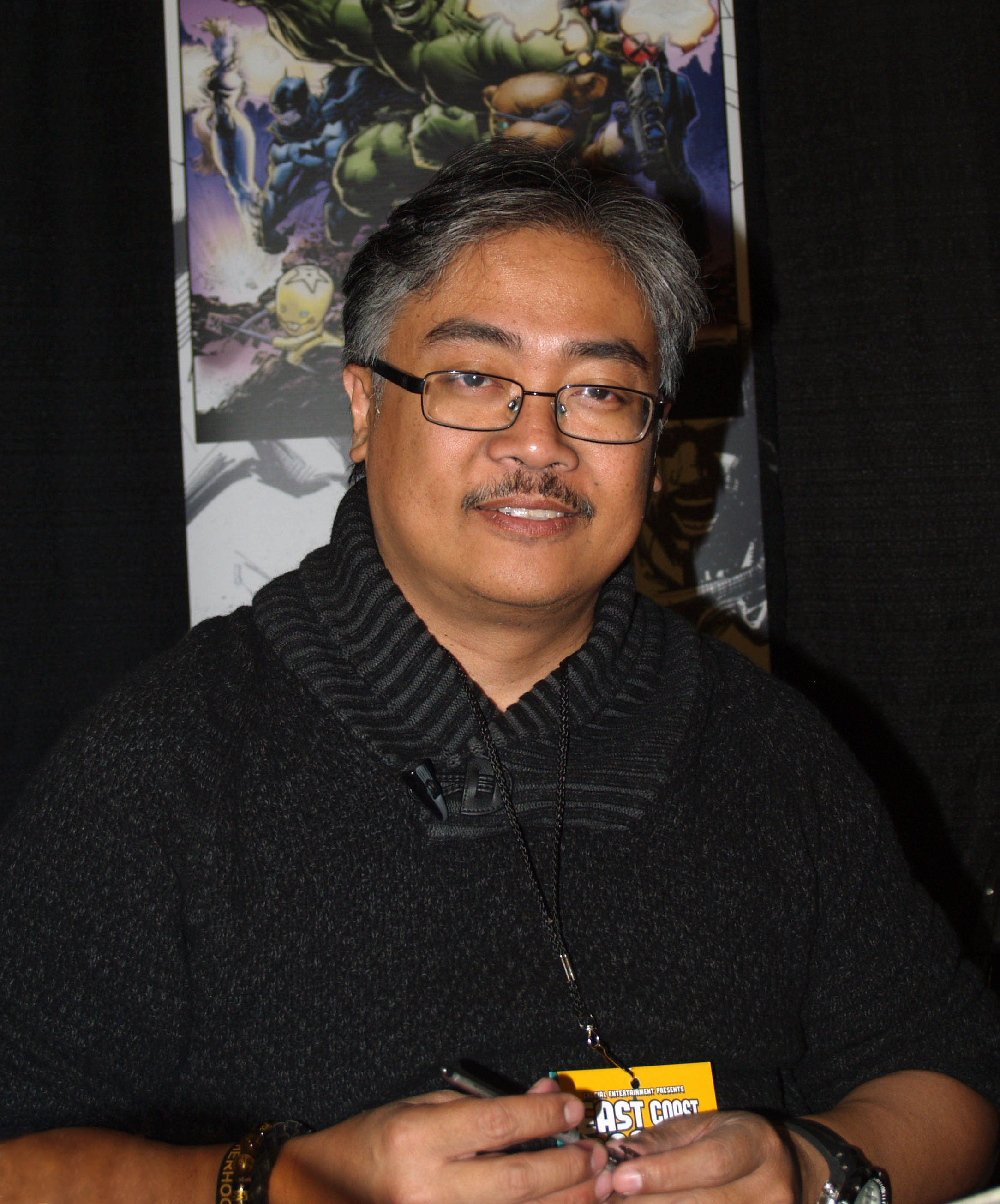 Comics artist Whilce Portacio at the Meadowlands Exposition Center in Secaucus, New Jersey on April 11, 2015, Day 1 of the 2015 East Coast Comicon. This photo was created by Luigi Novi. It is not in the public domain, and use of this file outside of the licensing terms is a copyright violation.